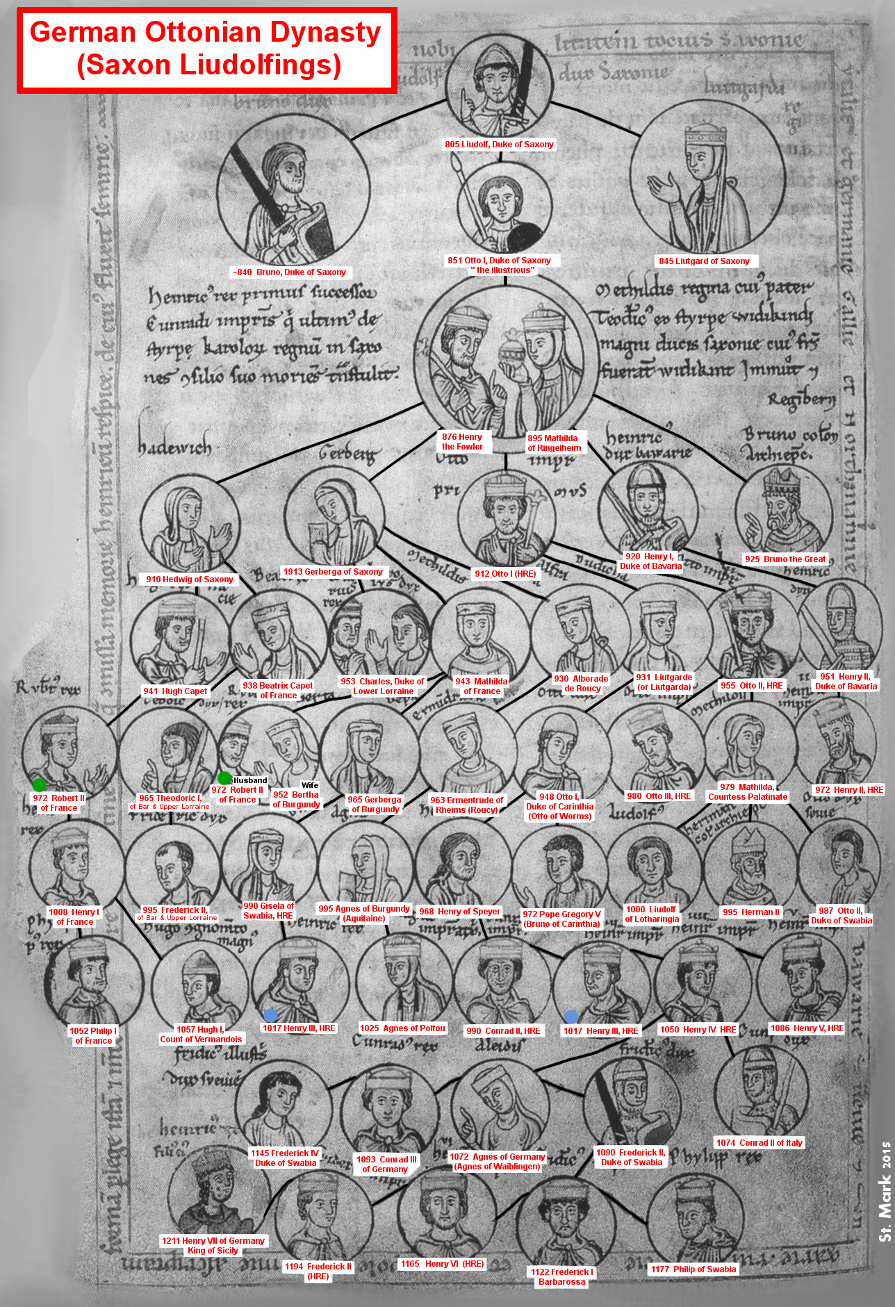 genealogical tree of german ottonian dynasty